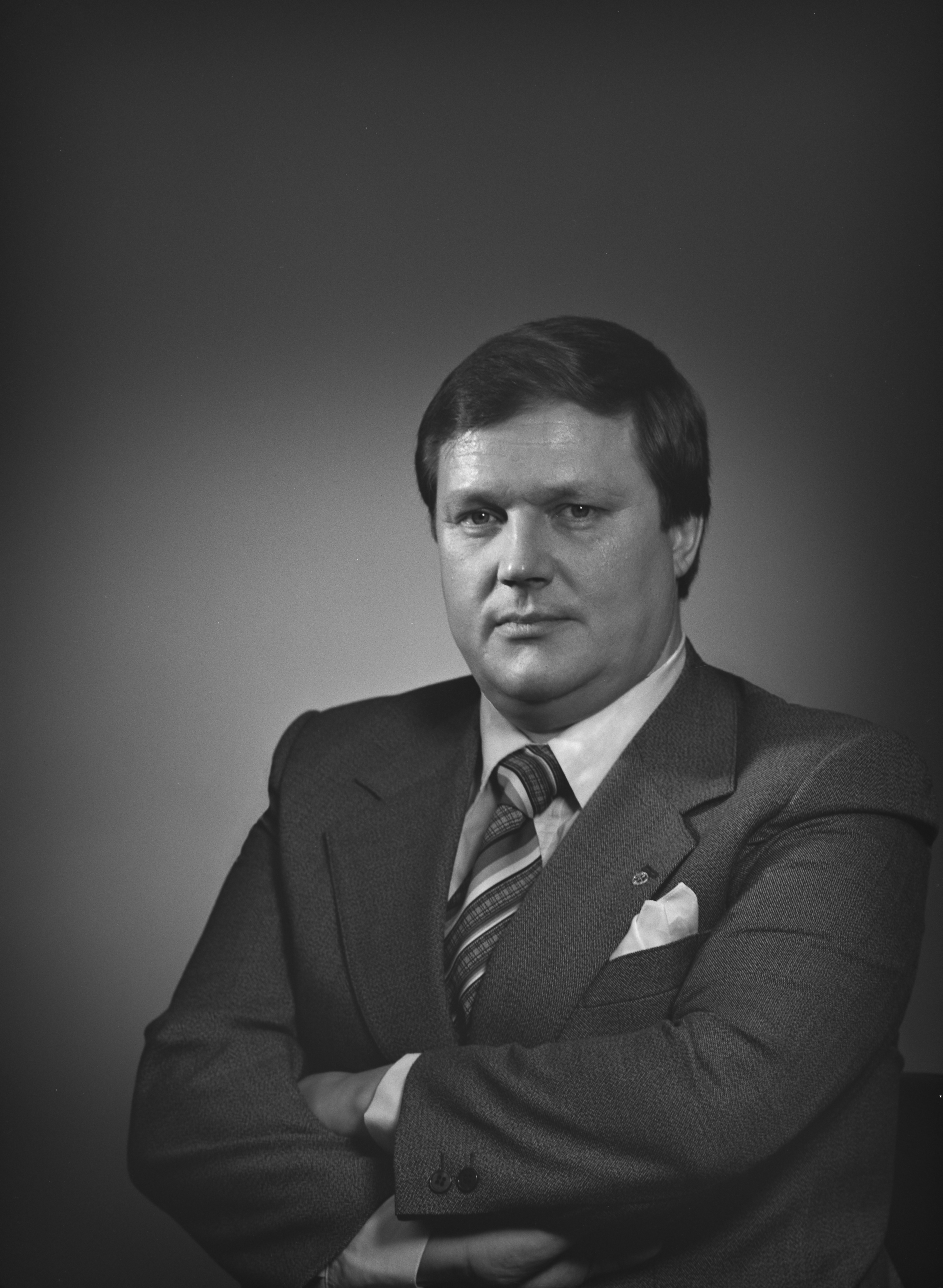 Photograph of the Finnish politician Matti Pelttari (1943–2018).